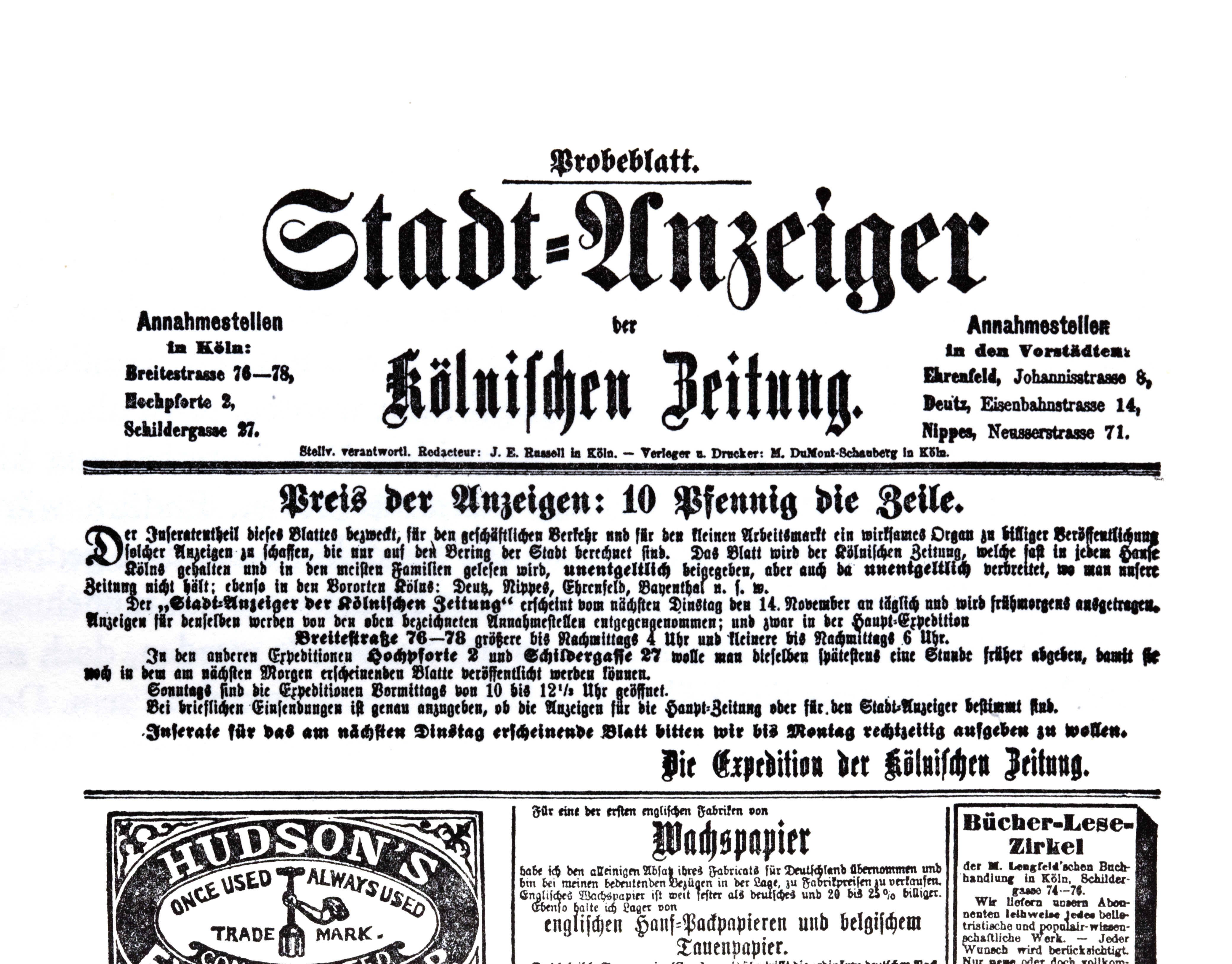 first ever published issue of "Kölner Stadtanzeiger".